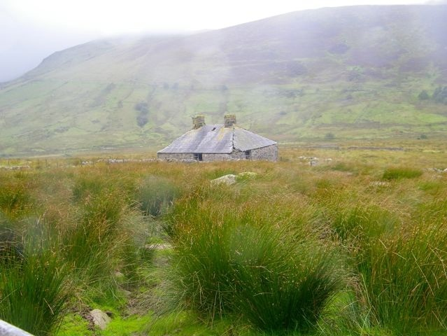 Adwy'r Waun, Cwm Brwynog on the slopes of Snowdonia. Birthplace of Griff Evans